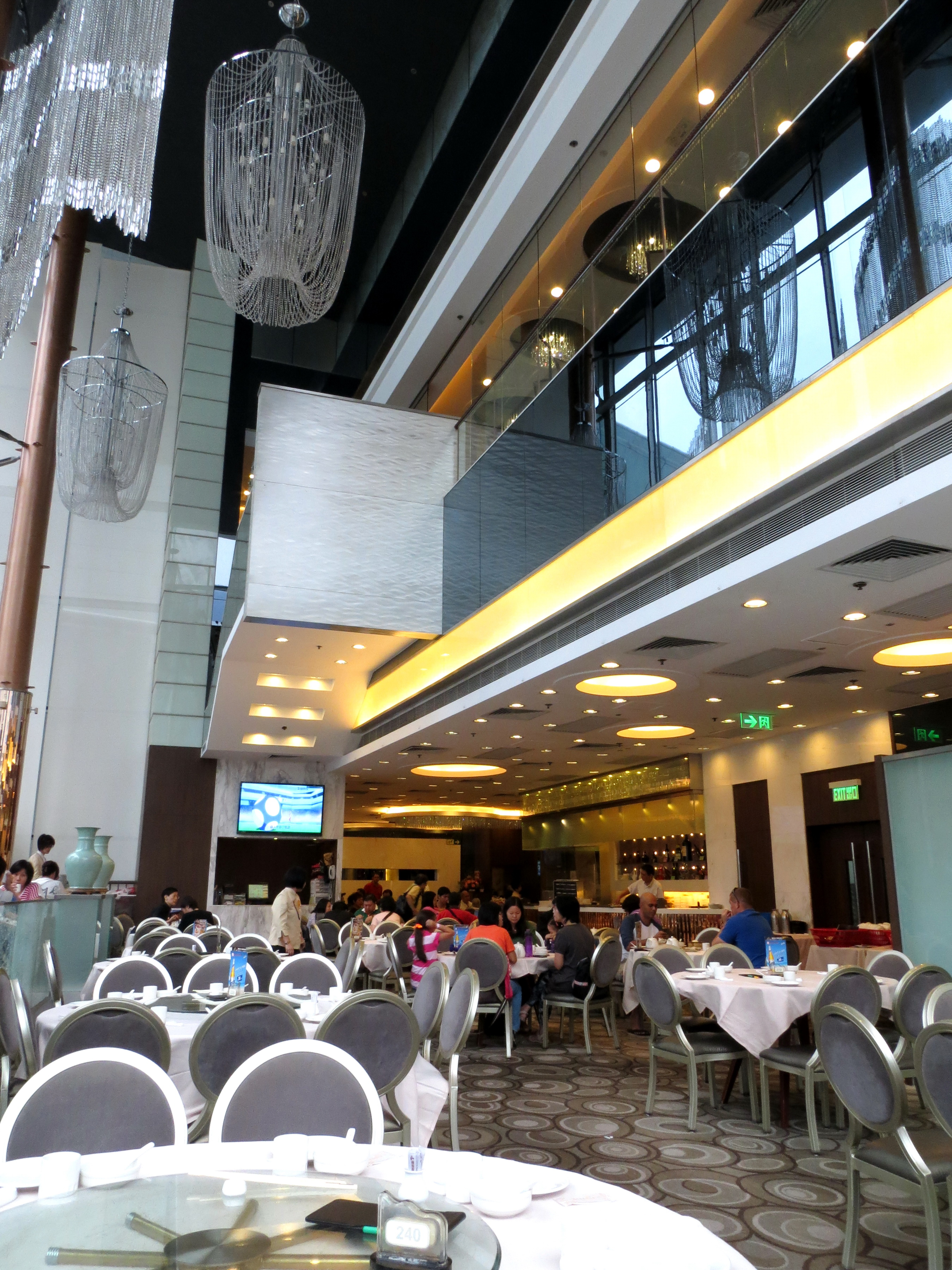 Federal Palace, Citygate Outlets, Tung Chung, Lantau Island, Hong Kong.